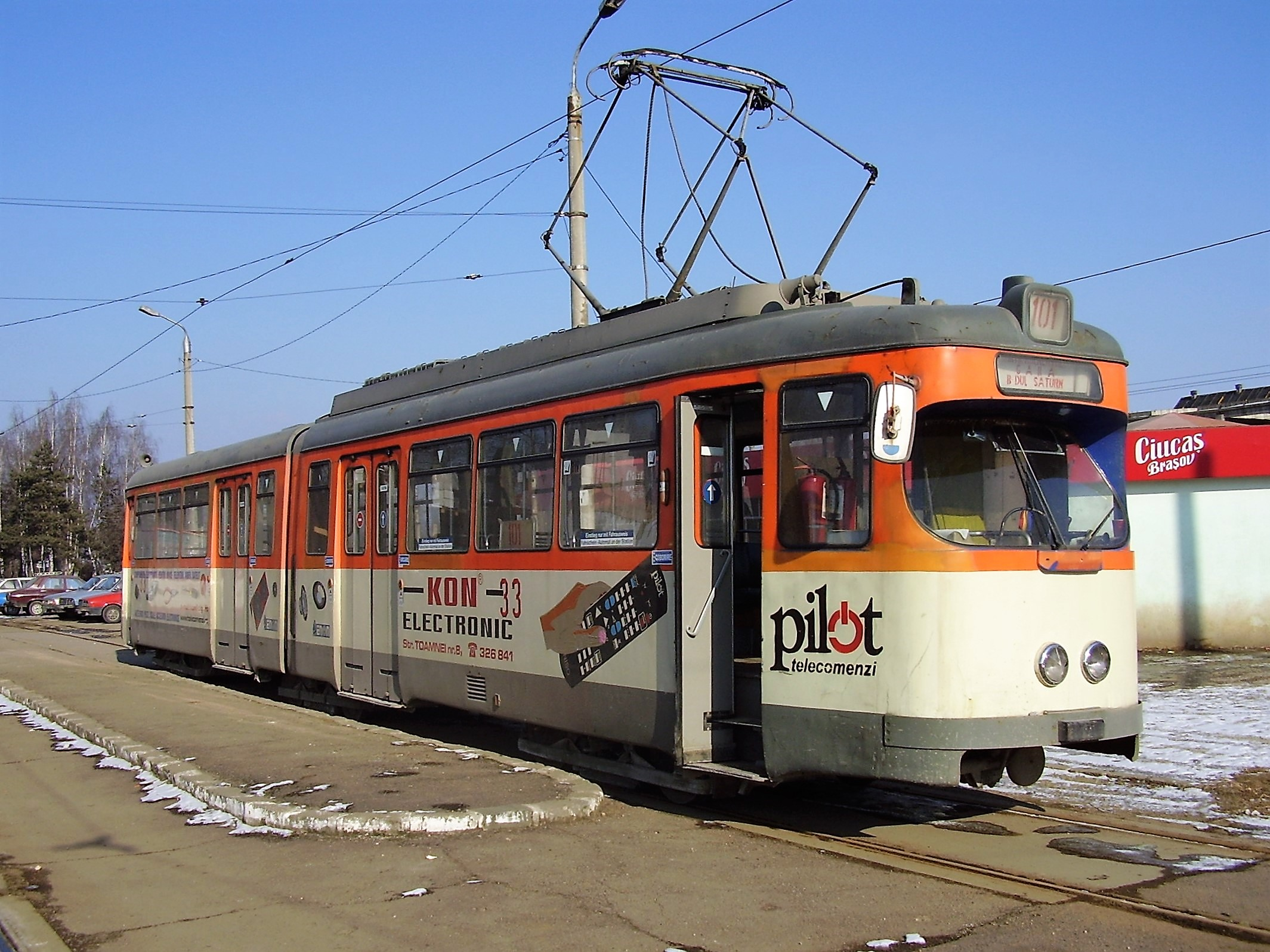 Author: Dr2006 Duewag tram ex-Frankfurt am Main in Braşov.